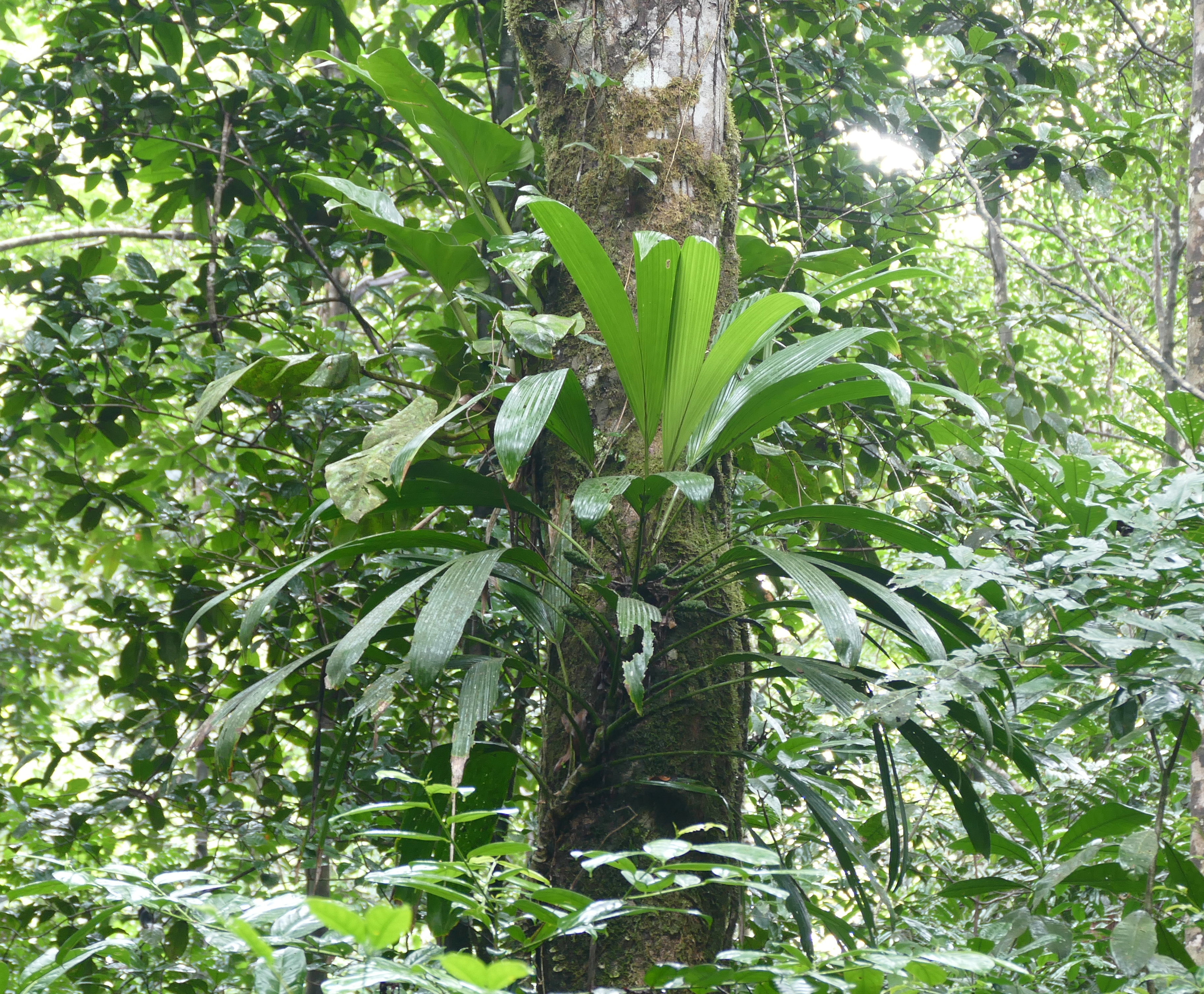 Cock-of-the-rock Trail, D6 Route de Kaw, Roura, French Guyana, FRANCE